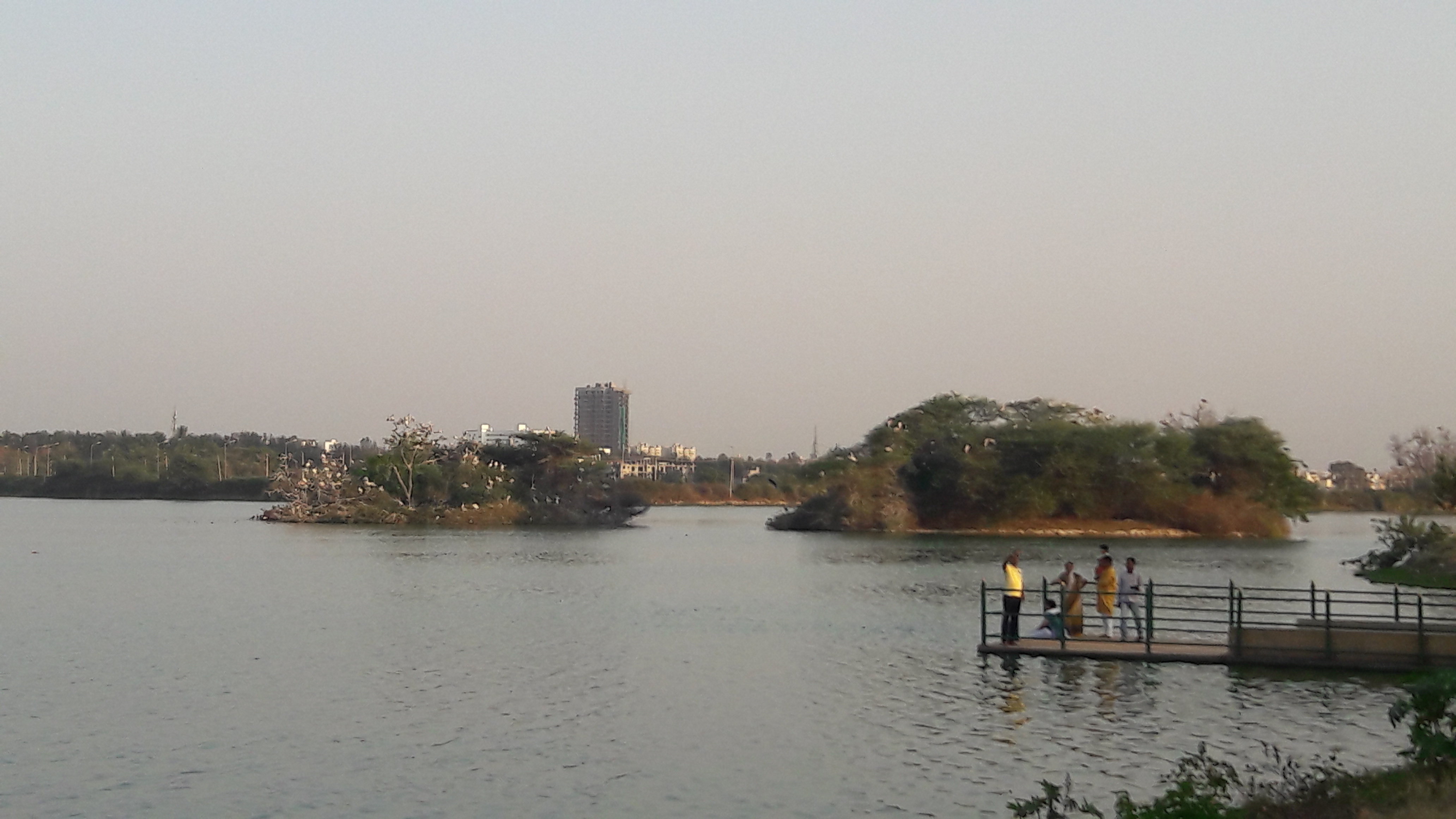 Jakkur lake in Bangalore is a popular recreation site with a large heronary with high number of pelican and stork nests